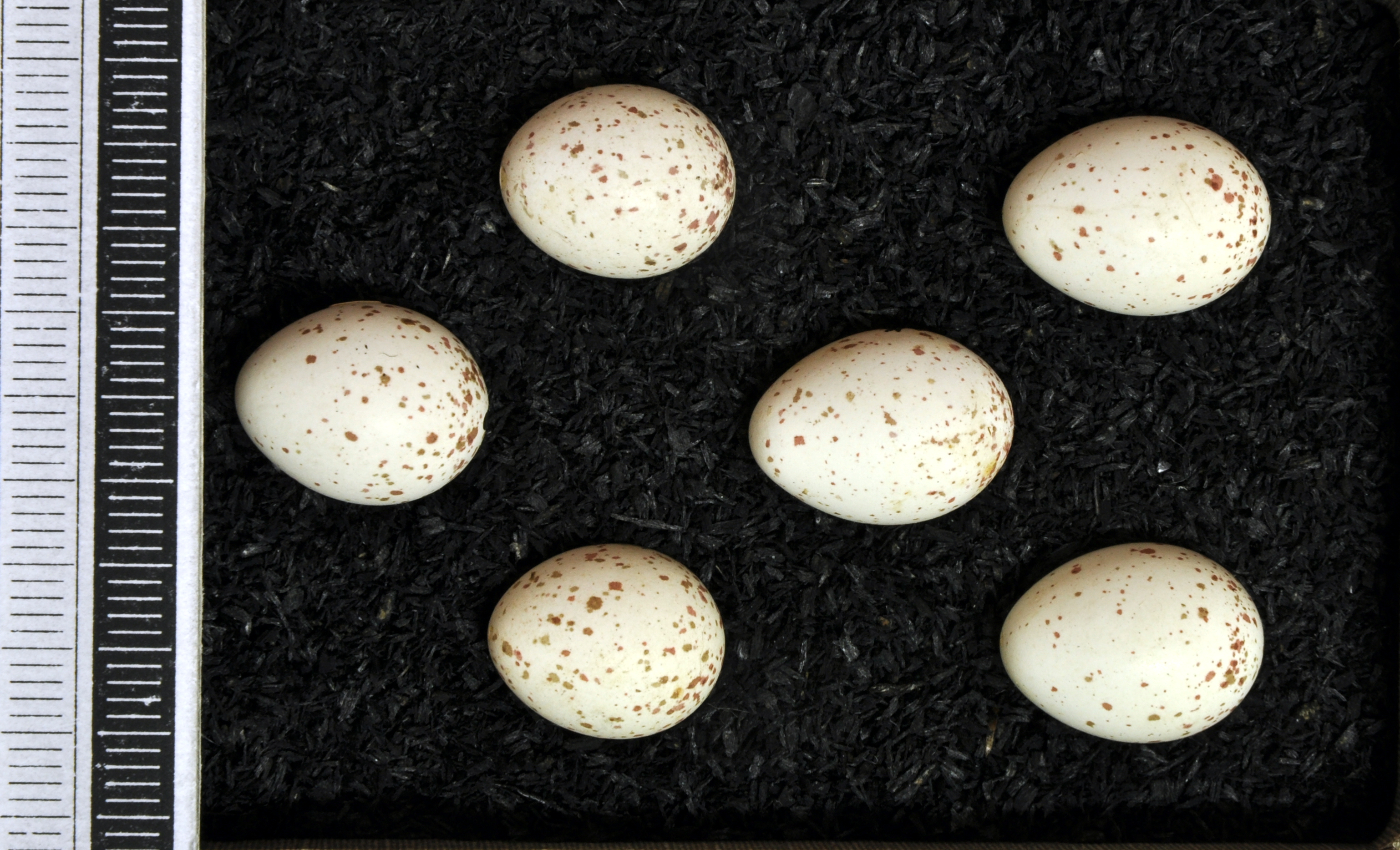 Marsh tit Poecile palustris , egg, Coll. Museum Wiesbaden